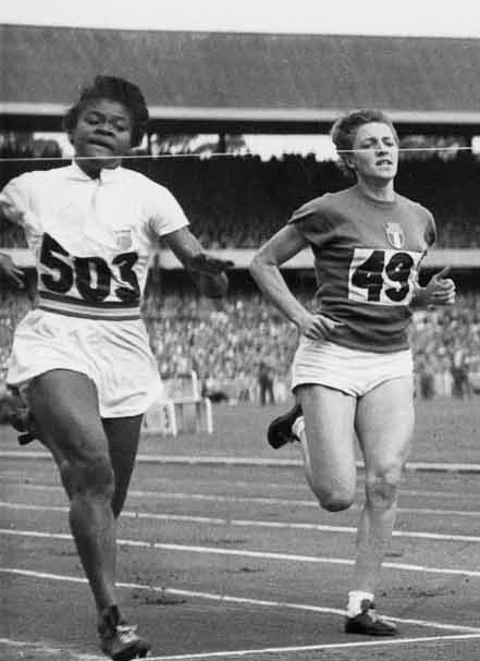 Women's 100 m final at the 1956 Olympics. Left-right: Isabelle Daniels, Giuseppina Leone